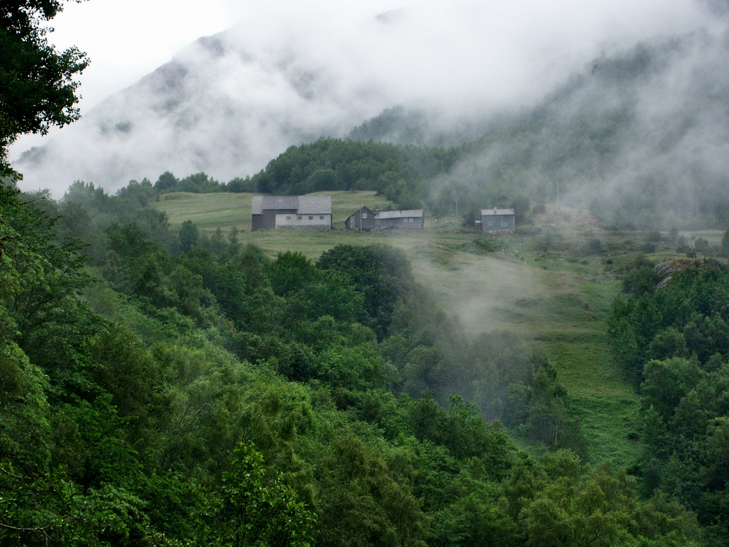 The Sivle farm at Stalheim in Nærøydalen, Voss municipality, Hardaland county, Norway. The childhood home of the Norwegian poet Per Sivle.